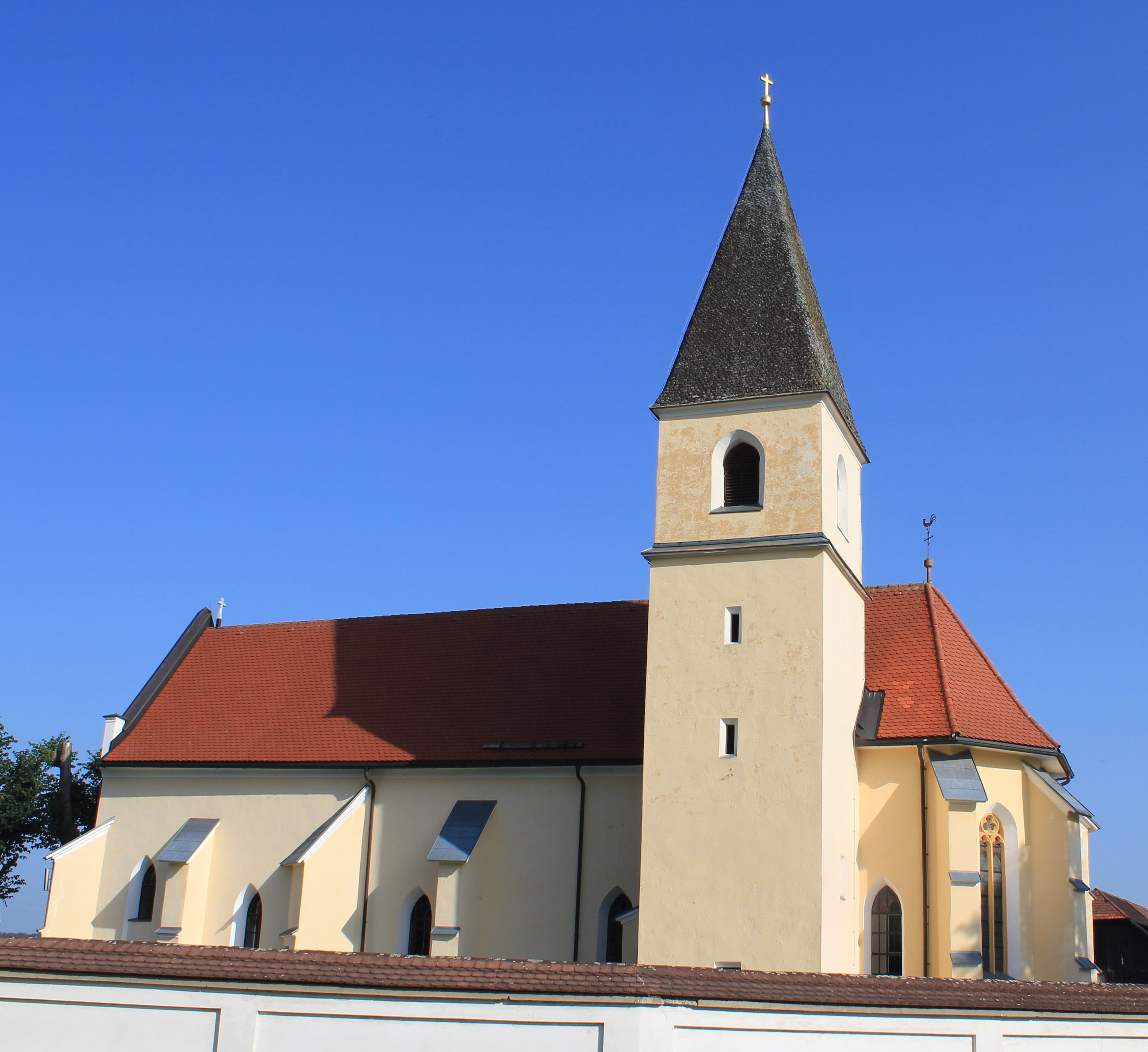 Subsidiary church Saint Andrew at Unterloibach, municipality Bleiburg, district Voelkermarkt, Carinthia, Austria, EU